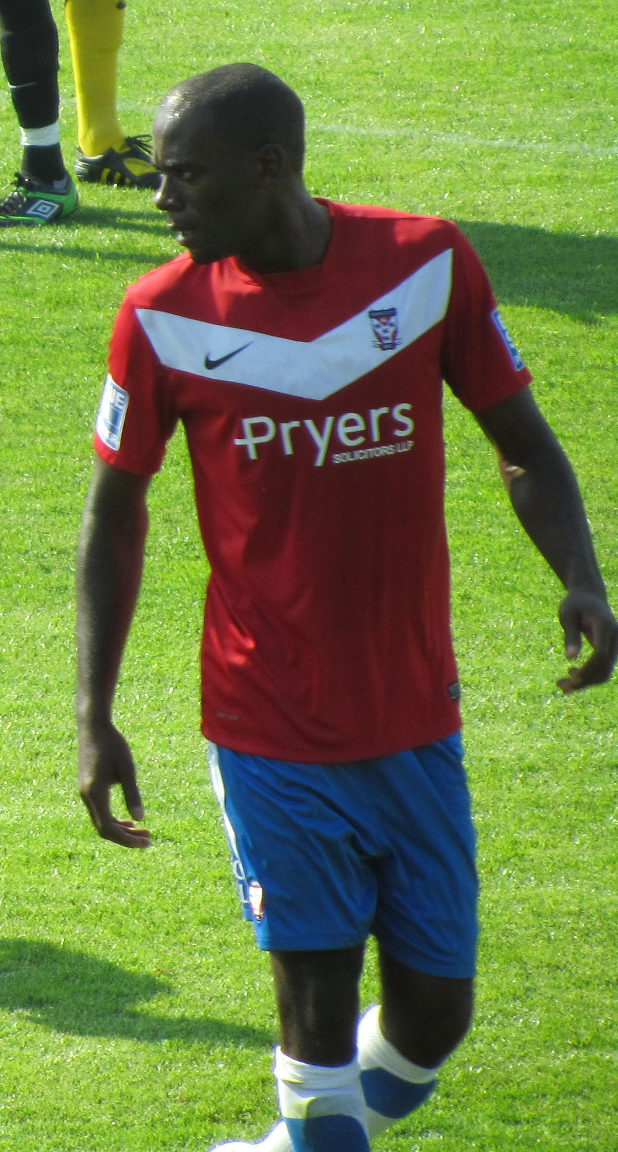 Jamal Fyfield playing for York City against Hartlepool United at Bootham Crescent, York on 30 July 2011